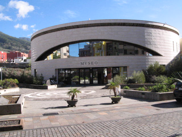 Museo Arqueologico in Los Llanos, La Palma